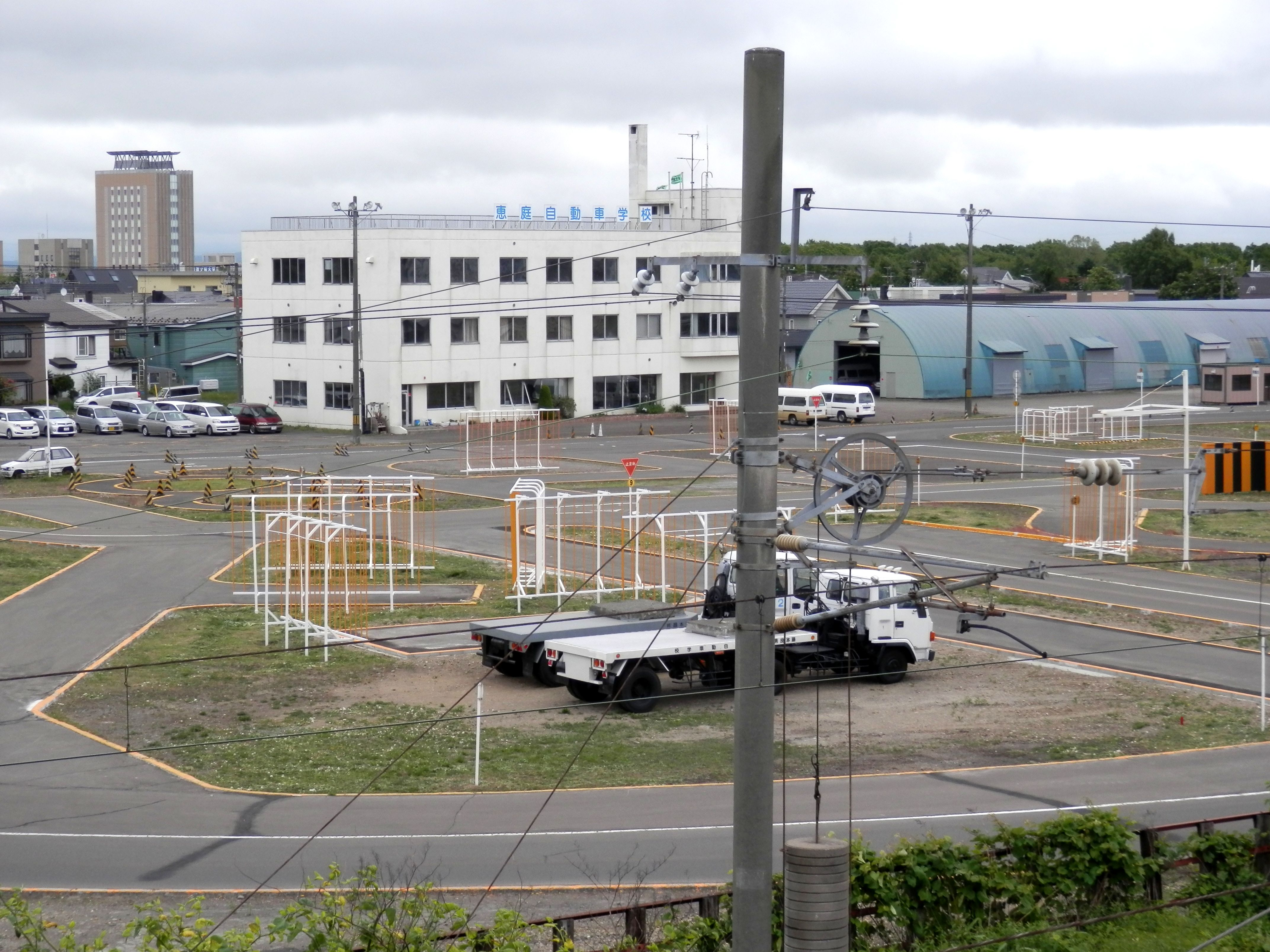 Eniwa Driving School in Kogane Kita, Eniwa, Hokkaido